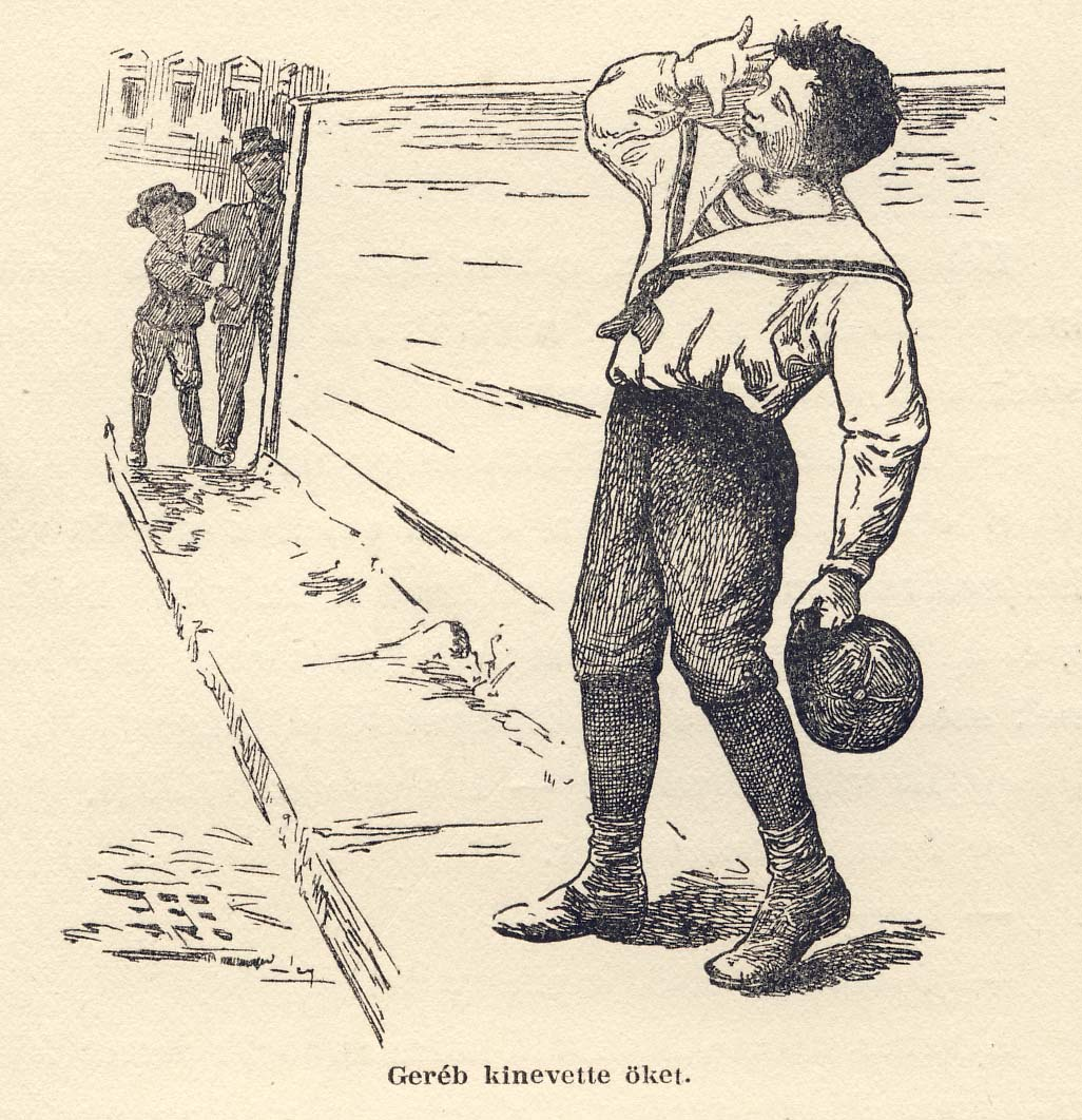 Ferenc Molnár: Pál street boys - The illustration of the first expense, 1907. Hungary, Budapest, Nr. 05.